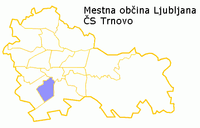 author: Navportus 18:32, 26 June 2007 (UTC) description: map of Trnovo quarter in Ljubljana